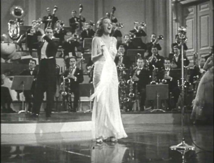 Screenshot of Ethel Merman from the trailer for the film Alexander's Ragtime Band